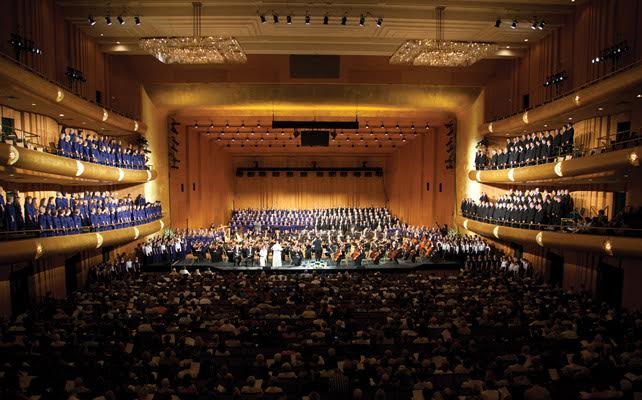 MCO performing "Messiah in America" in Abravanel Hall in 2011